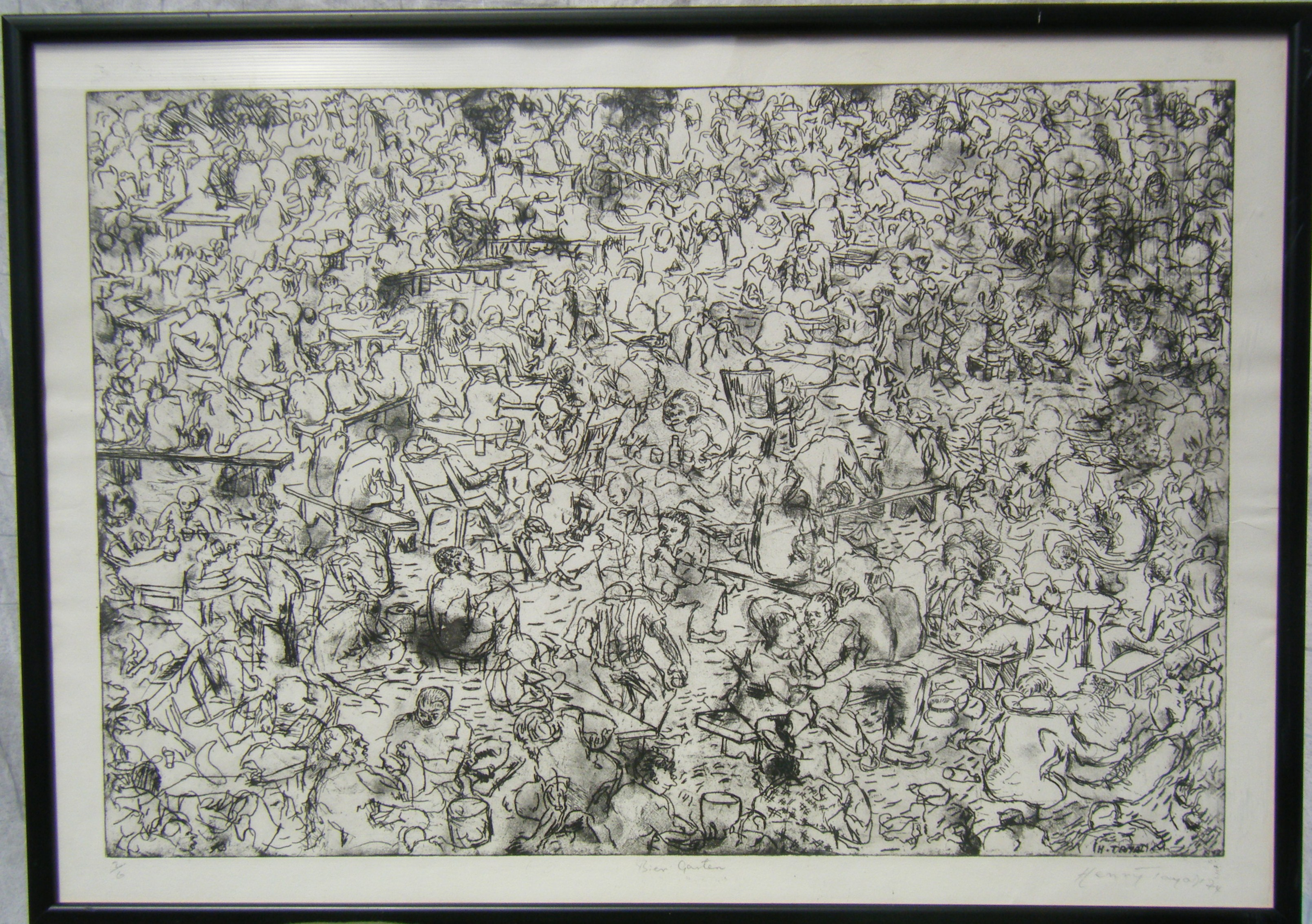 Bier Garten - showing the typically busy scenes Henry would produce, with individual detail of the subjects, making the scene live through the eyes of the artist. Private collection, Dr Enock Tayali